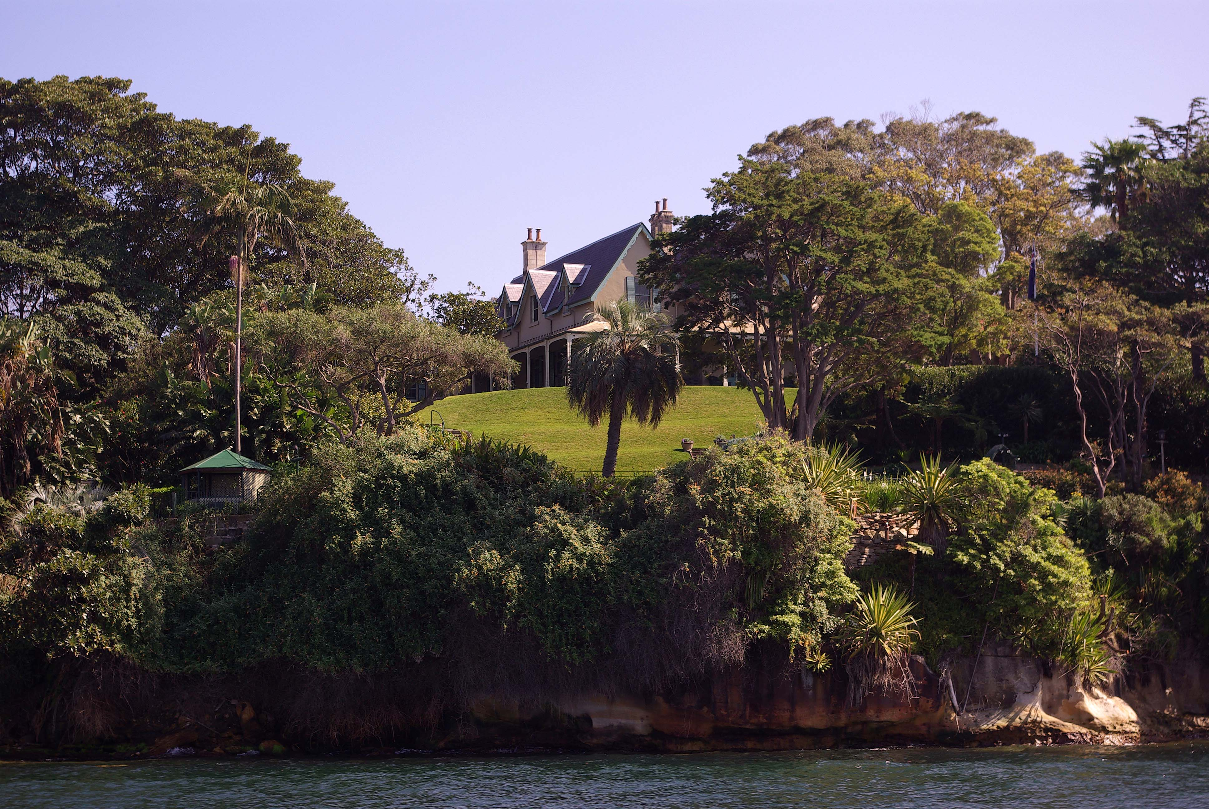 Kirribilli House, in the Sydney suburb of Kirribilli. As viewed from a commuter ferry.